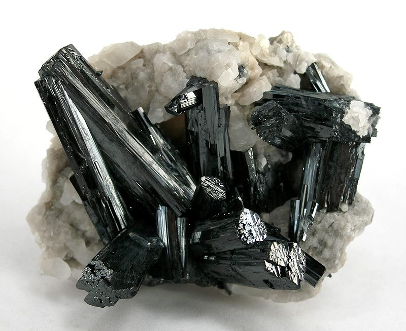 Manganite Locality: Ilfeld, Nordhausen, Harz Mts, Thuringia, Germany (Locality at ) Size: 5.2 x 4.1 x 2.7 cm. Aesthetically perched on white matrix is a cluster of splendent, black crystals of manganite, to 3.5 cm in length.